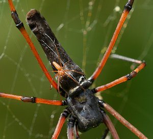 Nephila pilipes female with male dragling path